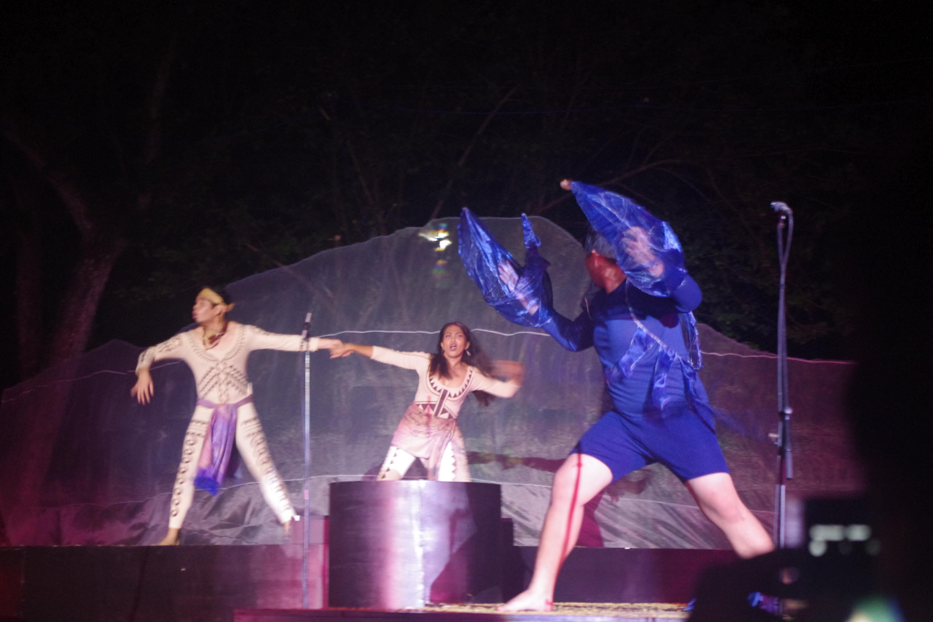 Performance during the staging of Lunop han Dughan at University of the Philippines Visayas Tacloban College in 2019